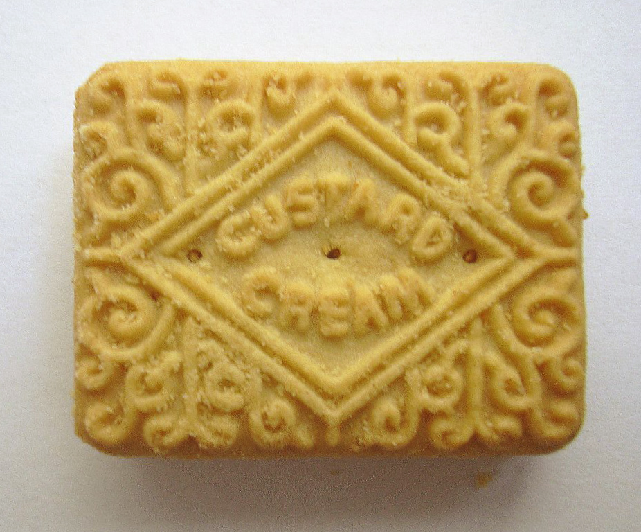 A British supermarket-brand custard cream biscuit. Taken by me on 10 April 2006.